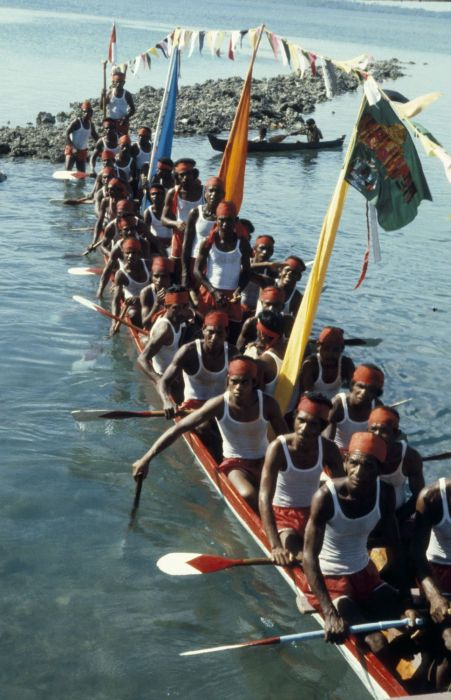 Team participating in rowing-matches with proas